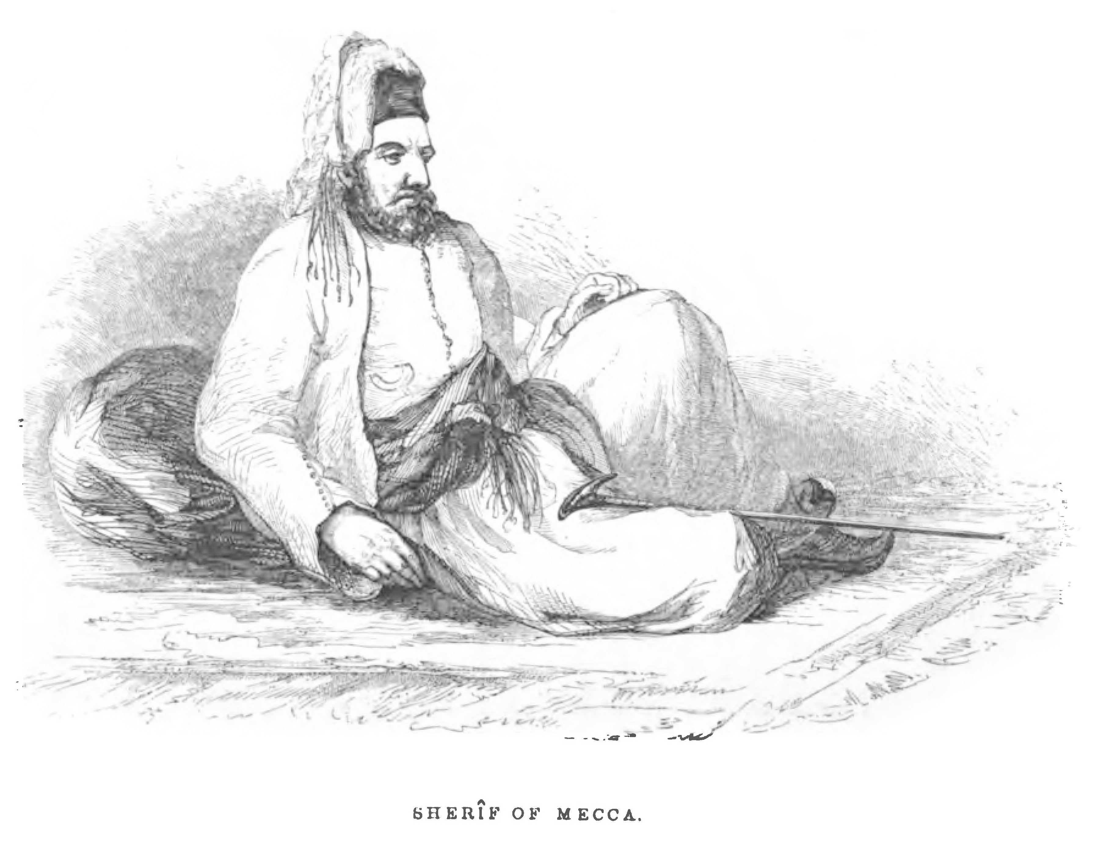 Sherif of Mecca